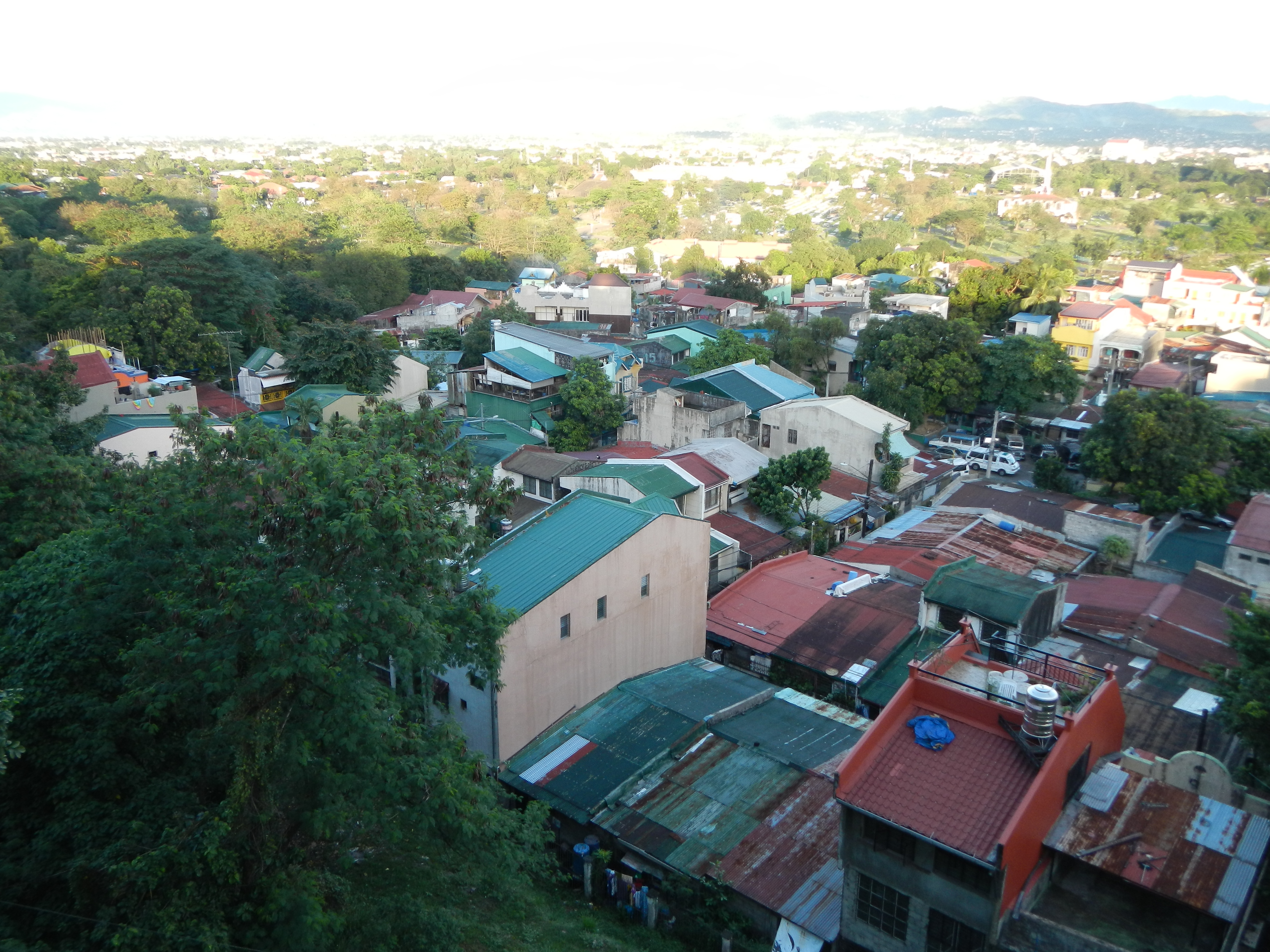 [1]Barangka, Marikina- view from Loyola House of Studies (Ateneo de Manila) and Loyola School of Theology